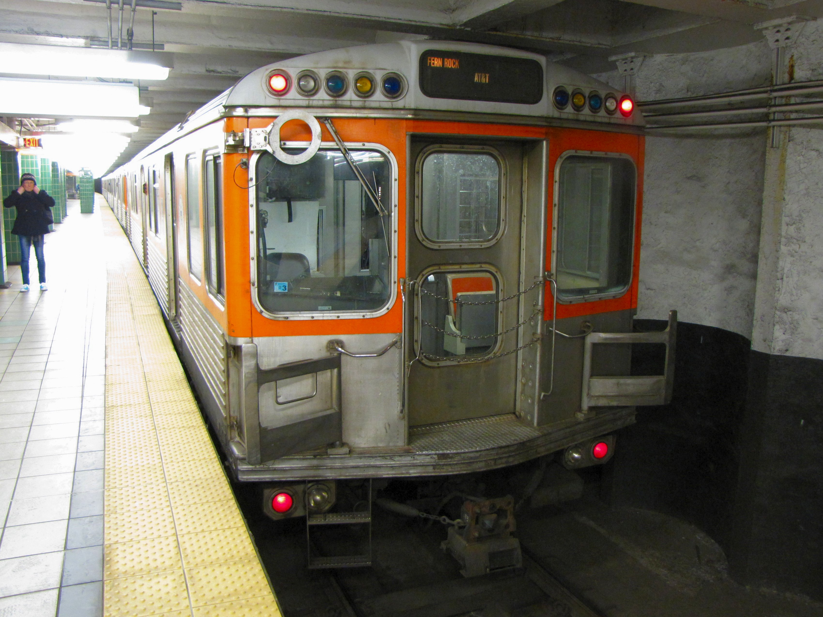 SEPTA Broad Street Subway car at Race-Vine. Train is traveling towards Fern Rock.